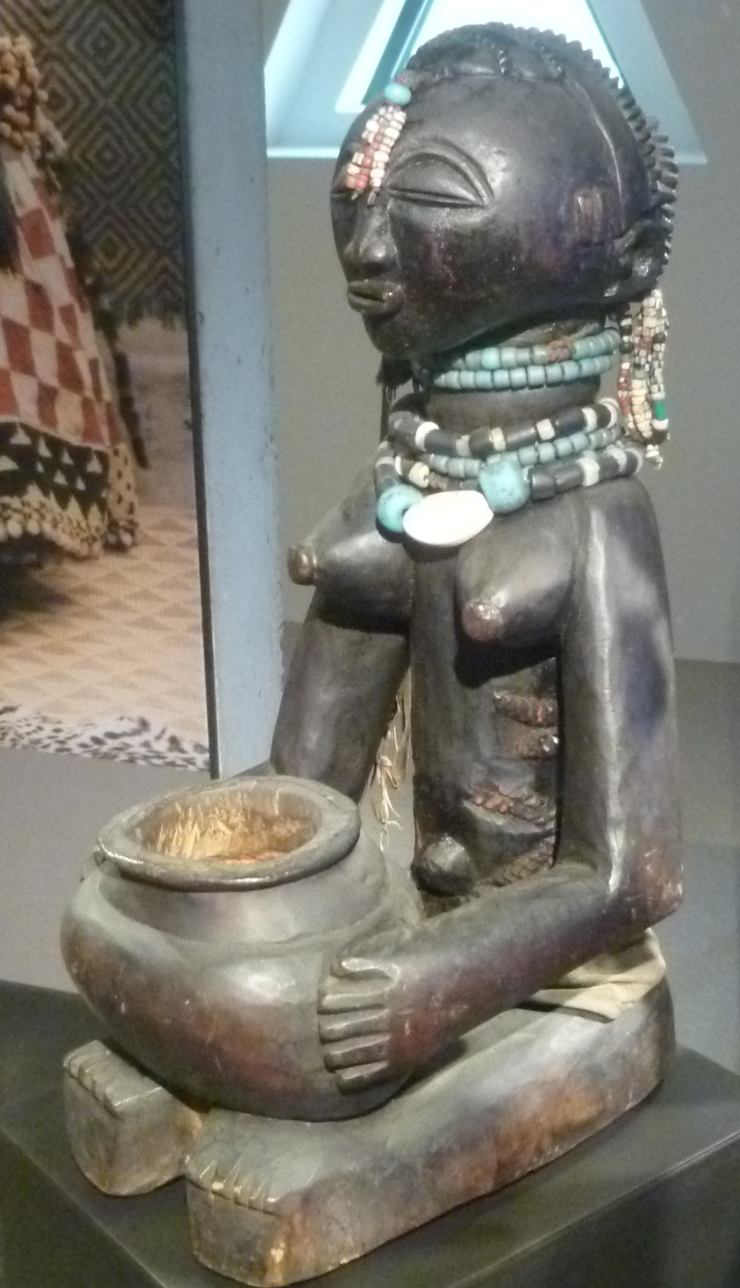 "Woman with bowl" (Luba hemba); workshop in Malemba Nkulu; Ricinodendron, glas paste and shells; end 19th-early 20th century; Katanga, Democratic Republic of Congo; collection of the Musée L, Ottignies-Louvain-la-Neuve; Belgium